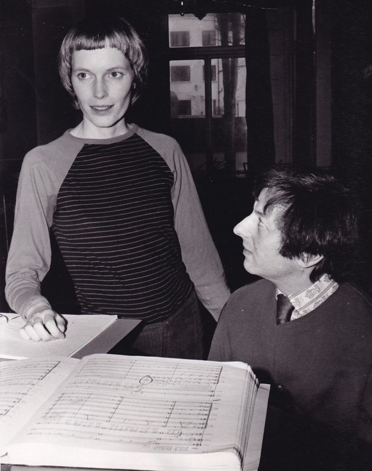 Mia Farrow and Andre Previn, 1971